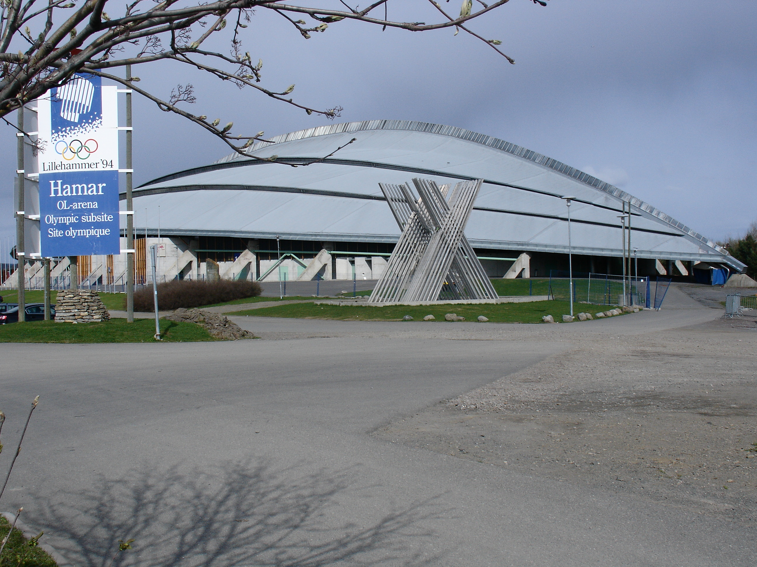 The speed skating arene The Viking Ship in Hamar, Norway